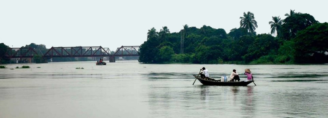 Atrai river during monsoon. This photo is taken from Atrai River bank, Atrai Upazila